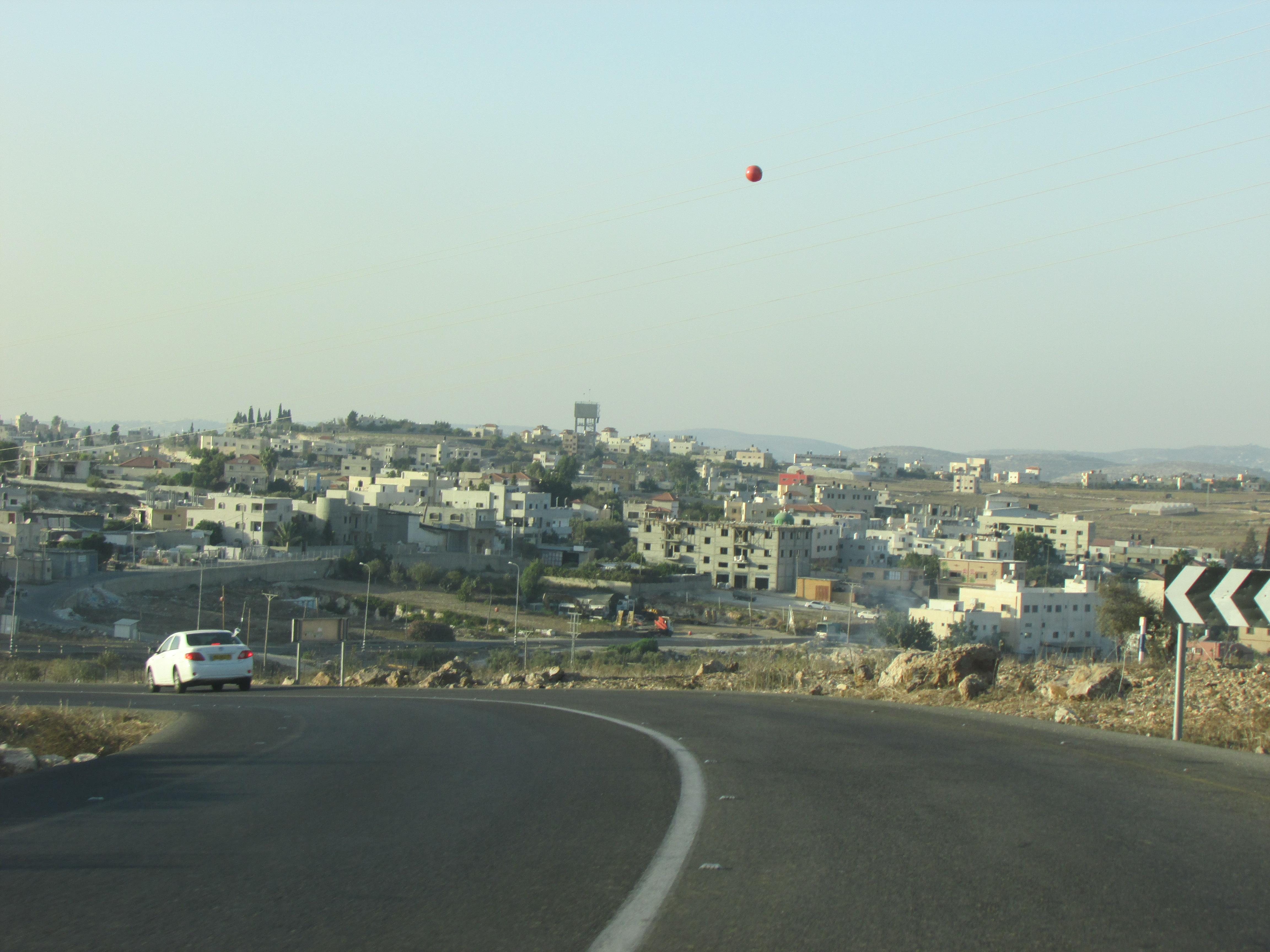 Al-Funduq